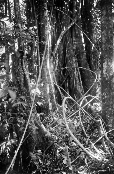 Rattan vegatation on the north slopes of the Gunung Barawaha at Pulu Karakelong on the Talaud-islands, North-Sulawesi.